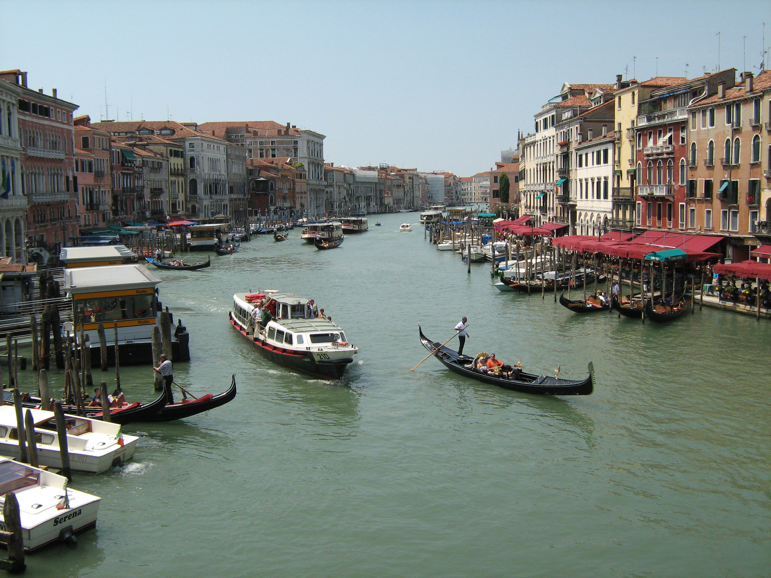 A view from the Rialto Bridge in Venice with gondolas and vaporetties on the Canal Grande